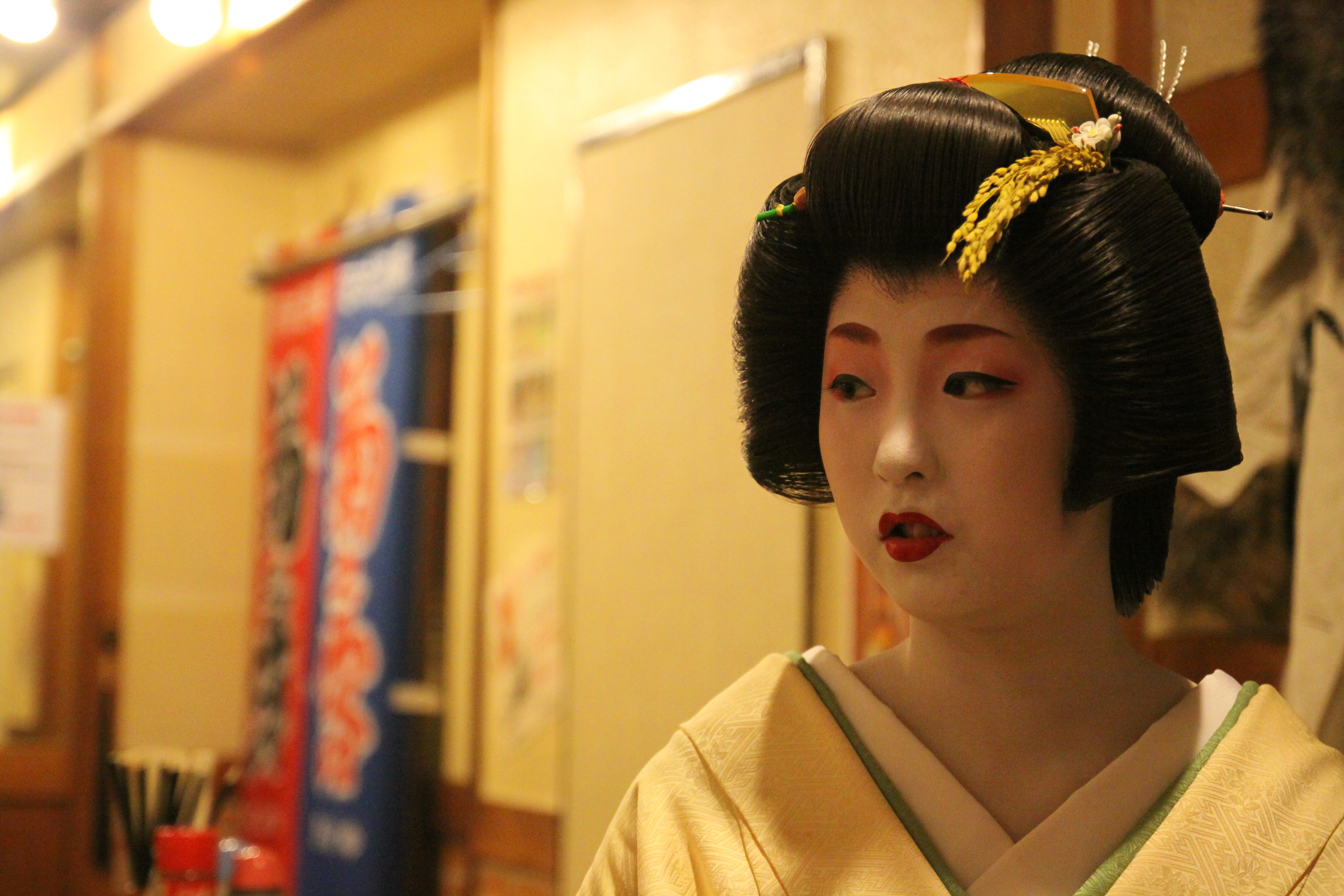 A geisha of Miyagawachou named Miehina with January Rice kanzashi named "inaho"